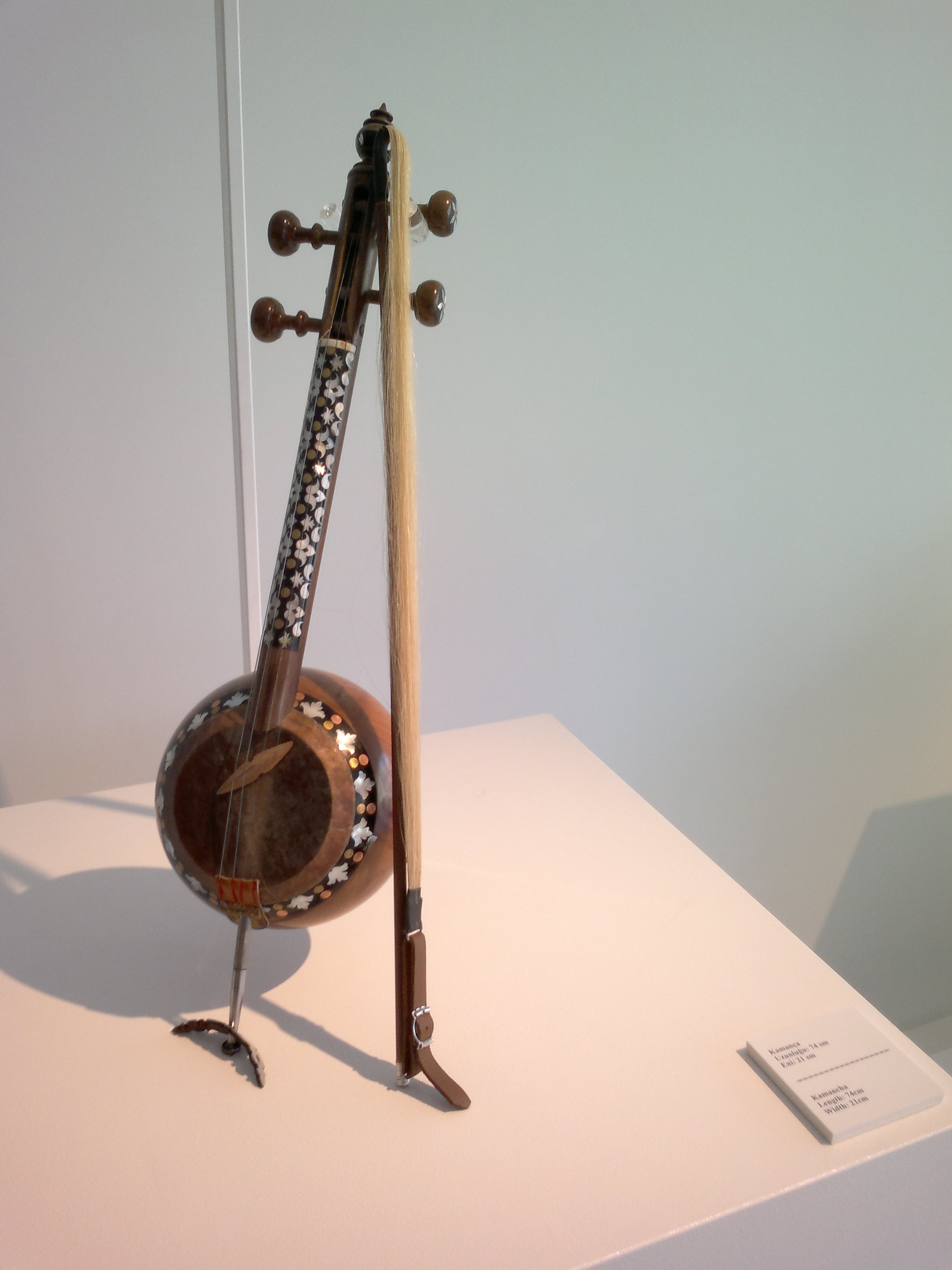 Azerbaijani musical instrument kamancha in Heydar Aliyev Center